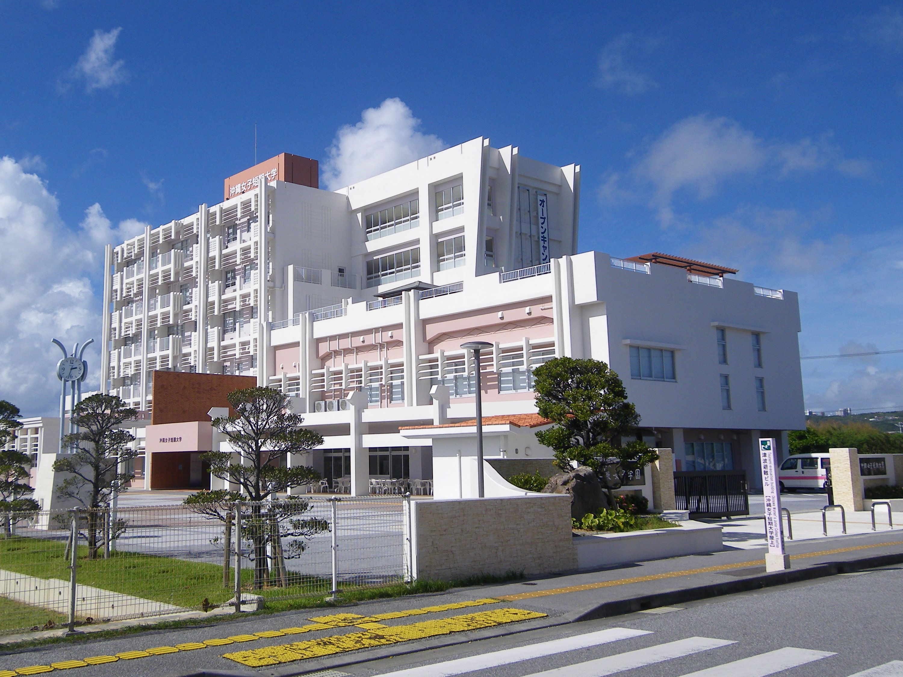 Okinawa Women's Junior College